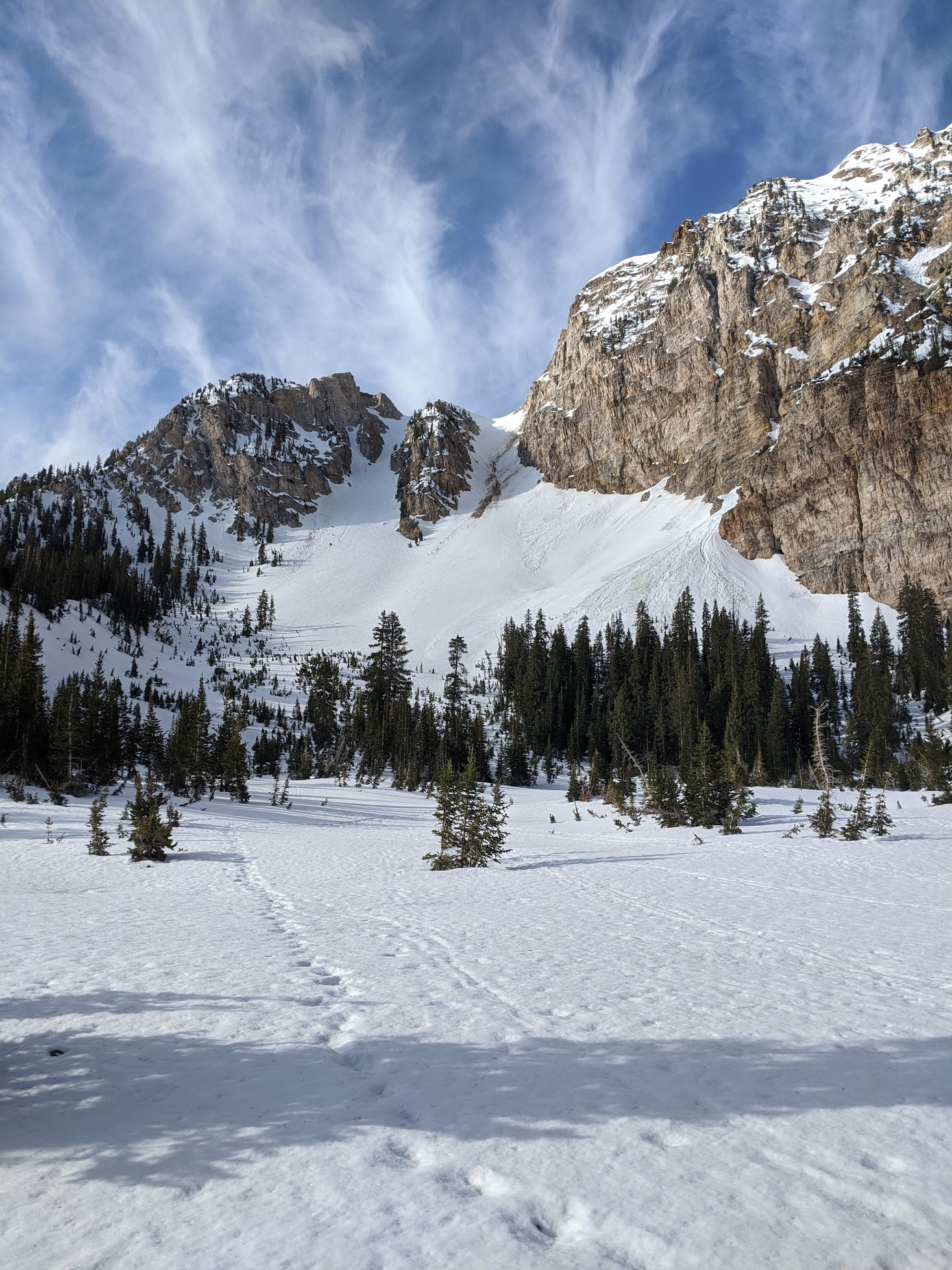 Twin Couloirs on Deseret Peak in the Stansbury Mountains, Utah. Photo was taken in May 2020.